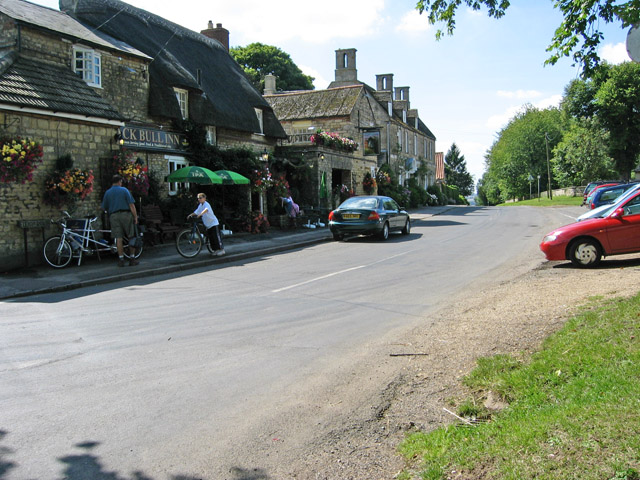 Market Overton, Rutland. The Bull Inn on Thistleton Road is in a row of larger limestone village houses. It is in a prominent position on the corner of Main Street and is opposite the open farmland in the first picture for this square